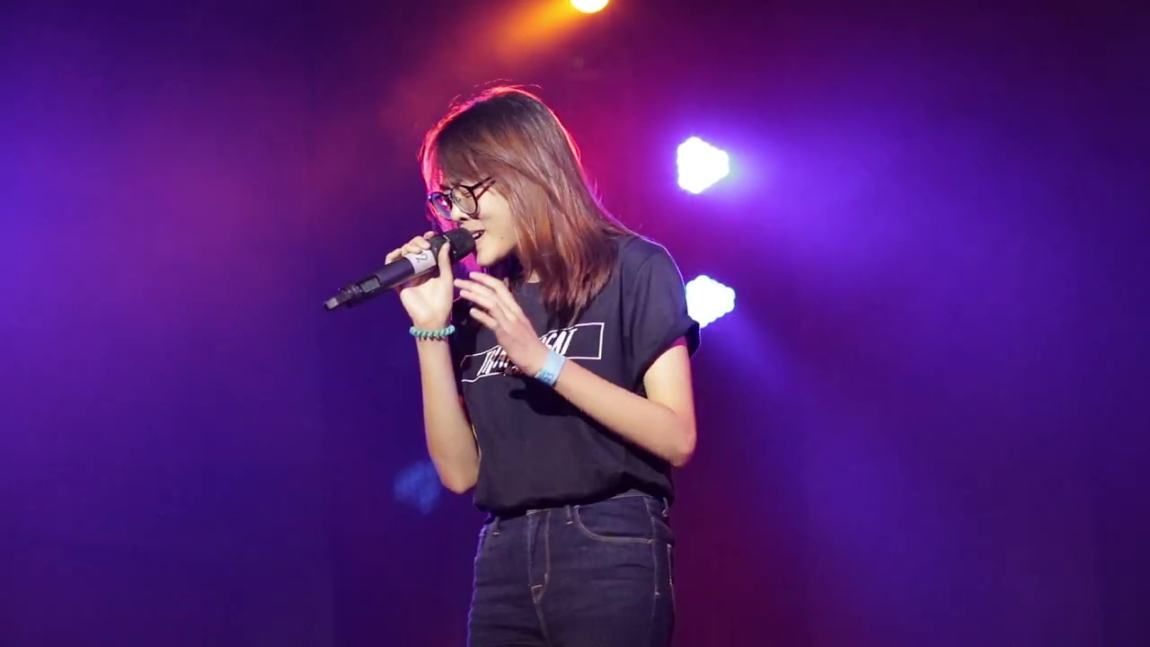 Suthita Chanachaisuwan, during a performance of "ถ้าเธอไม่รู้สึก" at the BBA Charity Concert